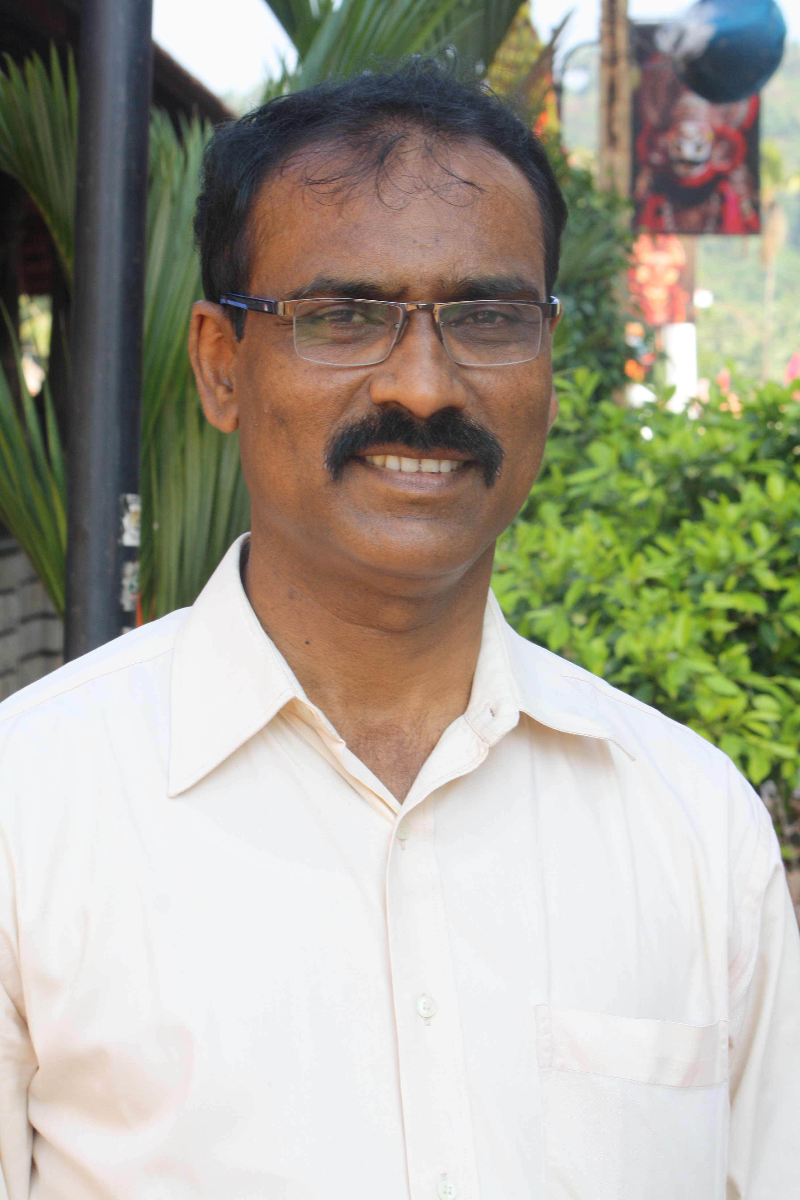 Vishwanatha Badikana, Kannada and Tulu scholar specialised in folk culture